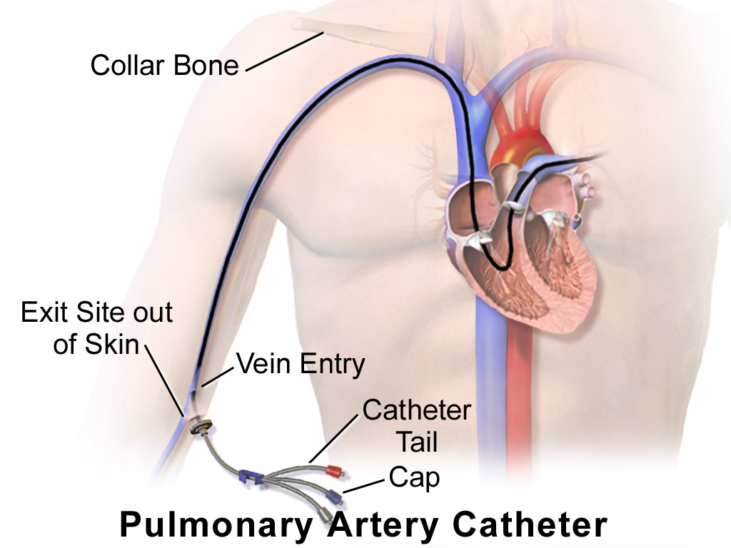 Illustration depicting a catheter on the pulmonary artery